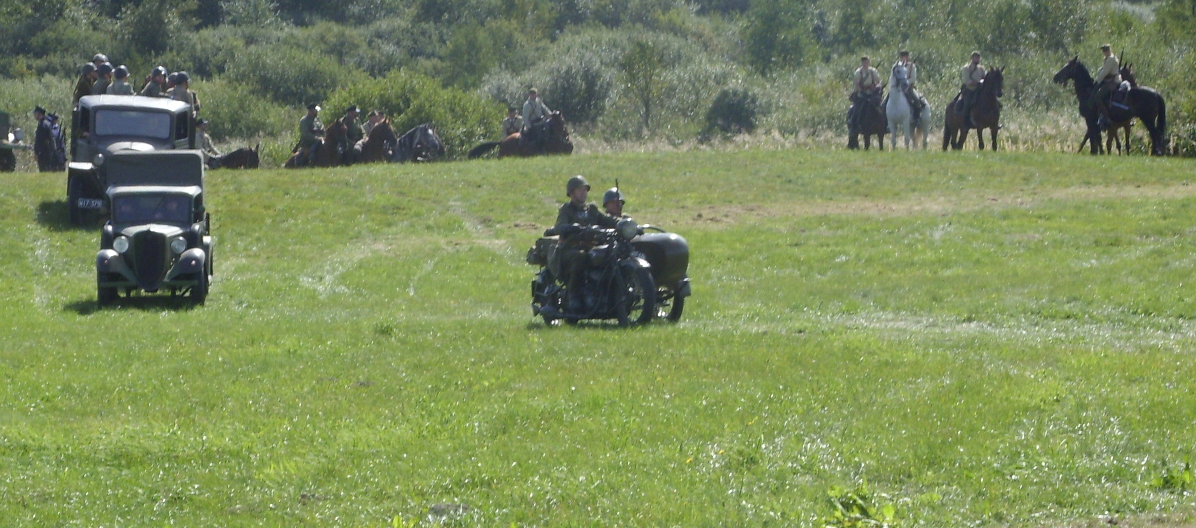 Battle of Tomaszów Lubelski, September 1939. Defense War of Poland 1939 against Nazi Germany. Reenactment in 2019.